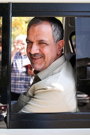 Ahmad Masjed Jamei